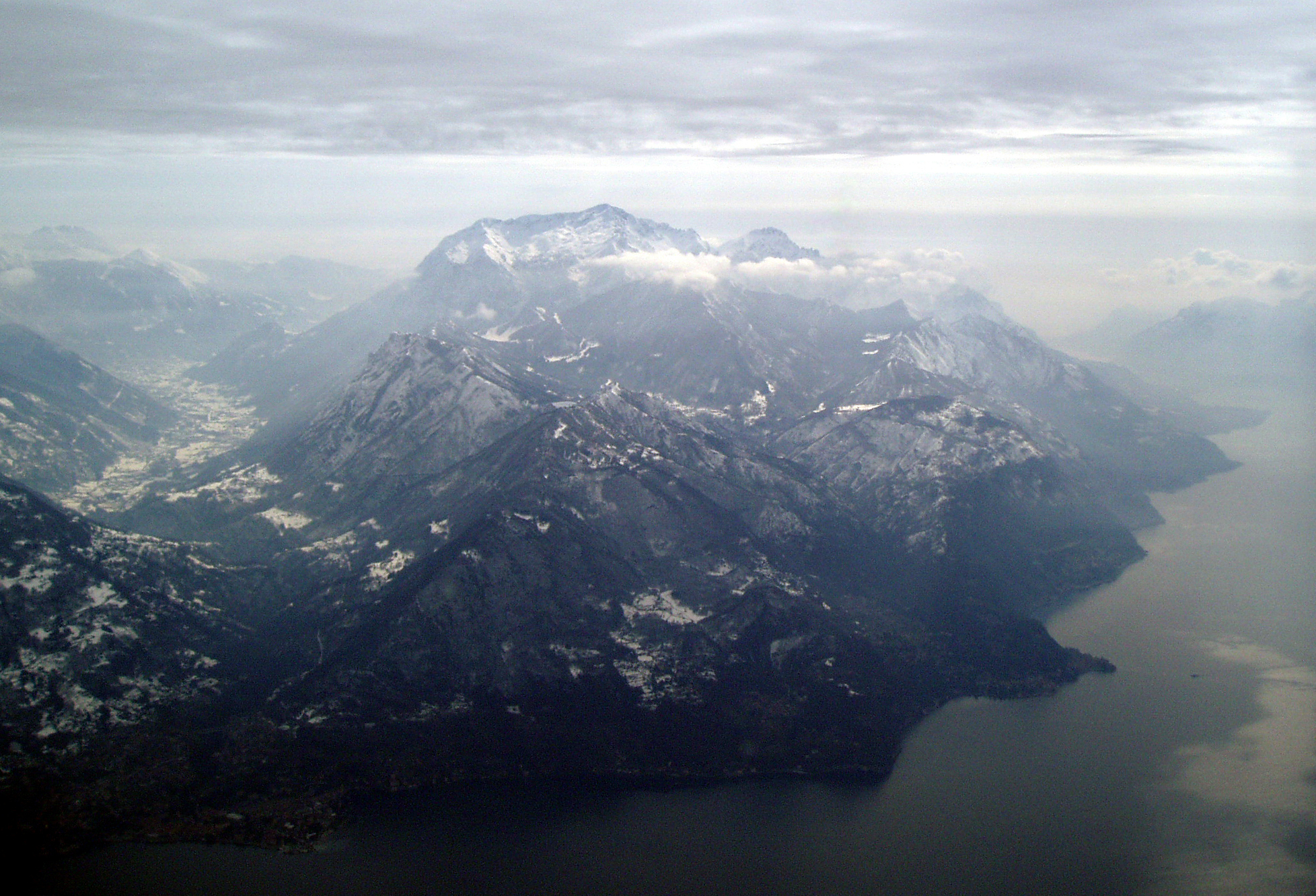 Images of Esino Lario and Grigna Settentrionale. Courtesy Archivio Pietro Pensa, photo by Carlo Maria Pensa.